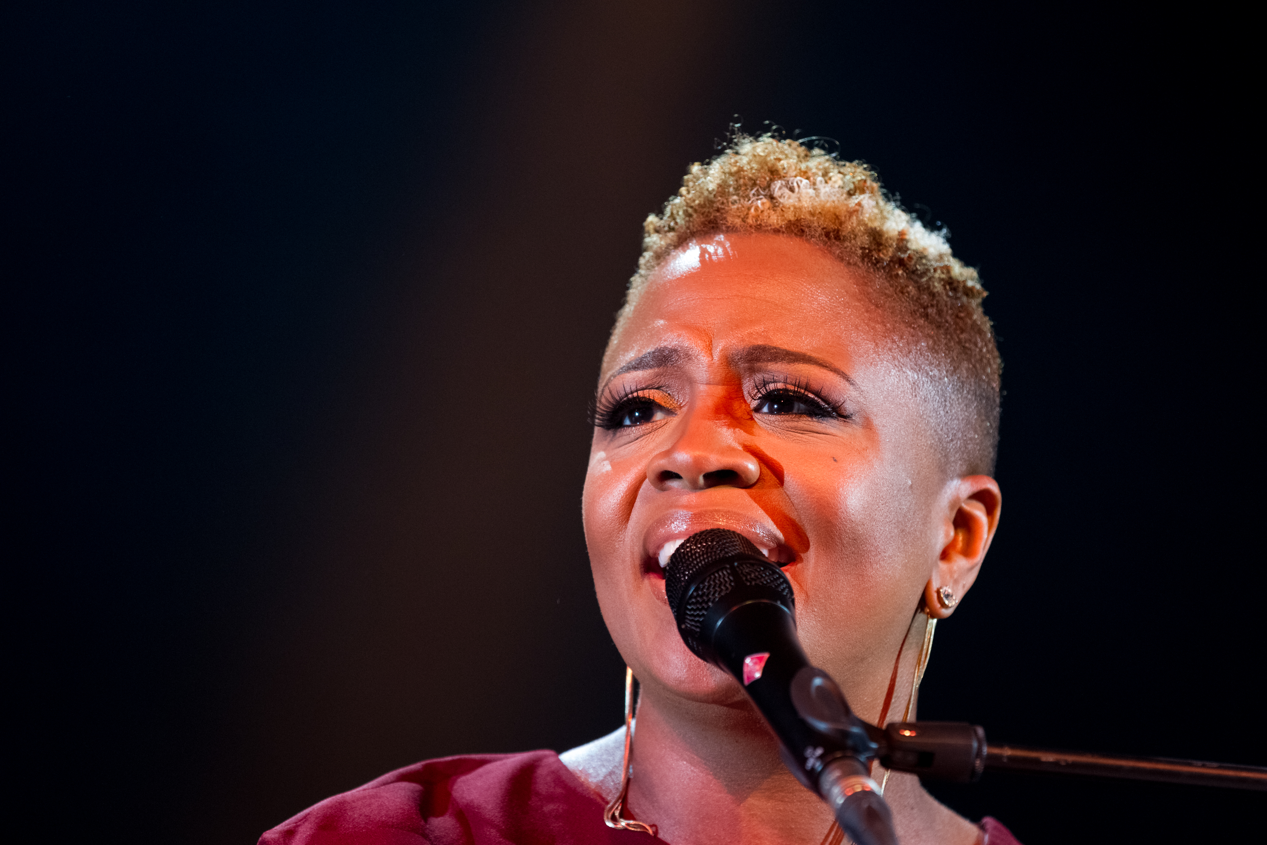 Avery Sunshine - Leverkusener Jazztage 2015